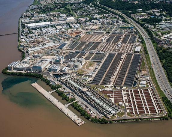 Aerial view of Blue Plains Advanced Wastewater Treatment Plant, Washington, D.C. Route 295 is seen along the right side of the facility.